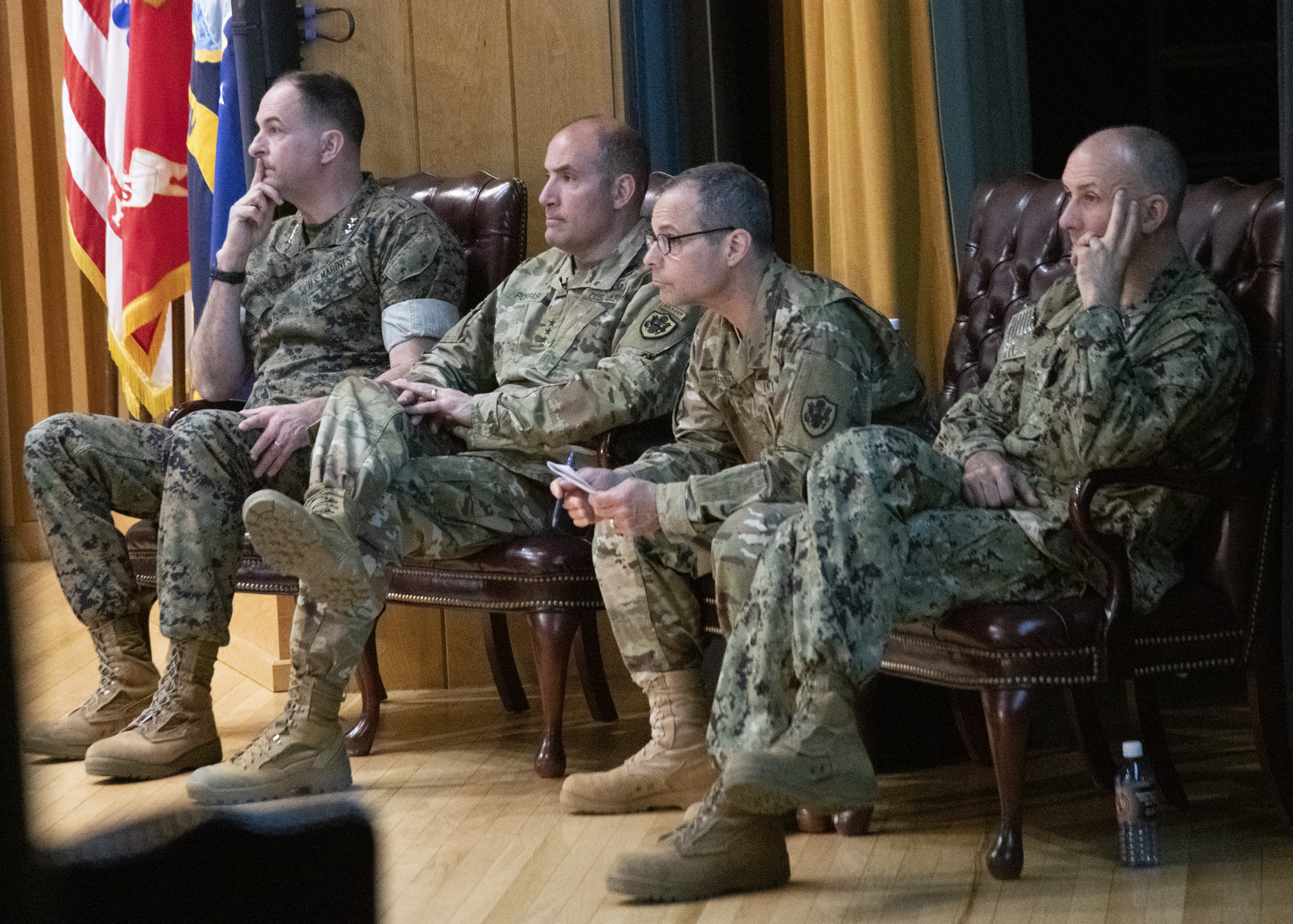 Marine Corps Gen. Joe Dunford, chairman of the Joint Chiefs of Staff, speaks to students at the U.S. Army War College (AWC), Carlisle, Pa., April 16, 2019. Dunford visited the AWC to speak with students and staff about Global Integration. (DOD photo by U.S. Navy Petty Officer 1st Class Dominique A. Pineiro)